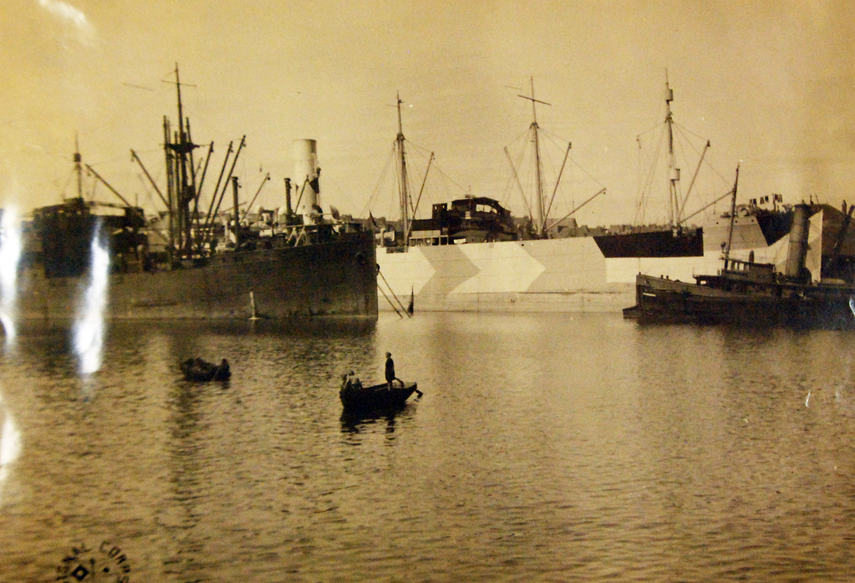 Lot-8330-3: View of the Bassin de. St. Nazaire, Base Section No.1, July 6th 1918. U.S. Army Signal Corps Photograph. Courtesy of the Library of Congress. (2016/07/15).